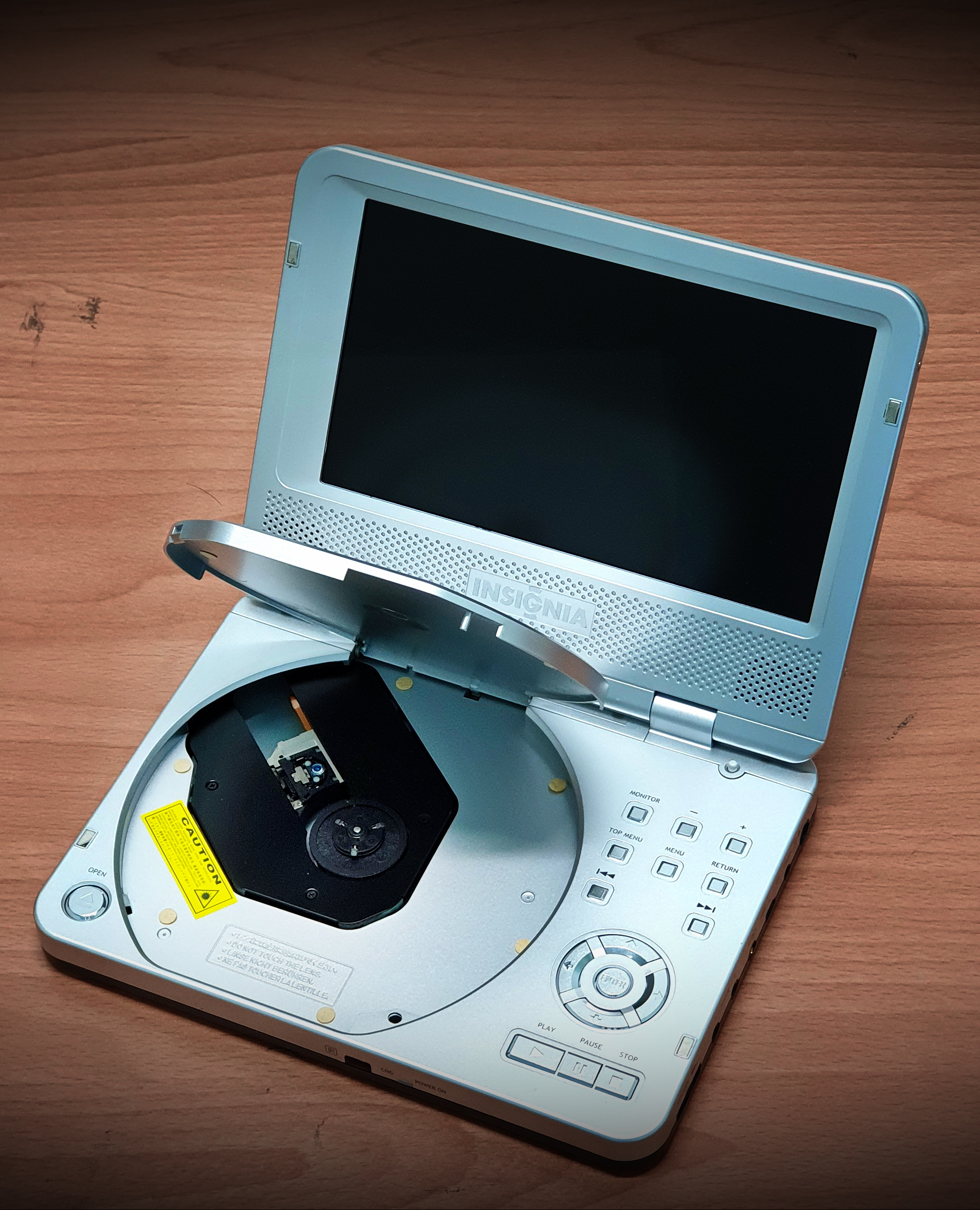 A portable DVD player (Insignia I-PD720)